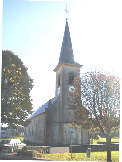 Church of Suxy, Chiny, Belgium. Walon: Eglijhe di Chuchi